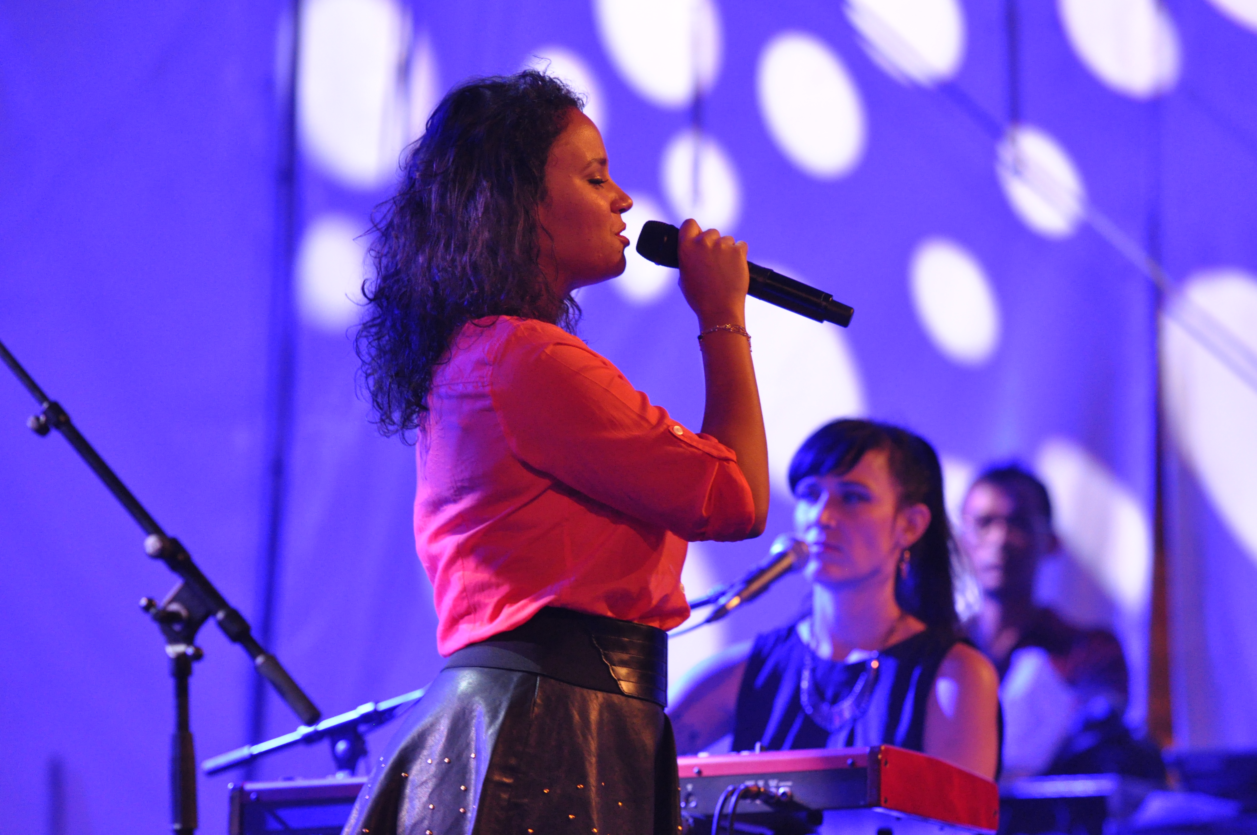 Mayra Andrade (CV), appearance at the 12th World Music Festival "Horizonte" 2014 at the fortress of Ehrenbreitstein, Koblenz (Germany)